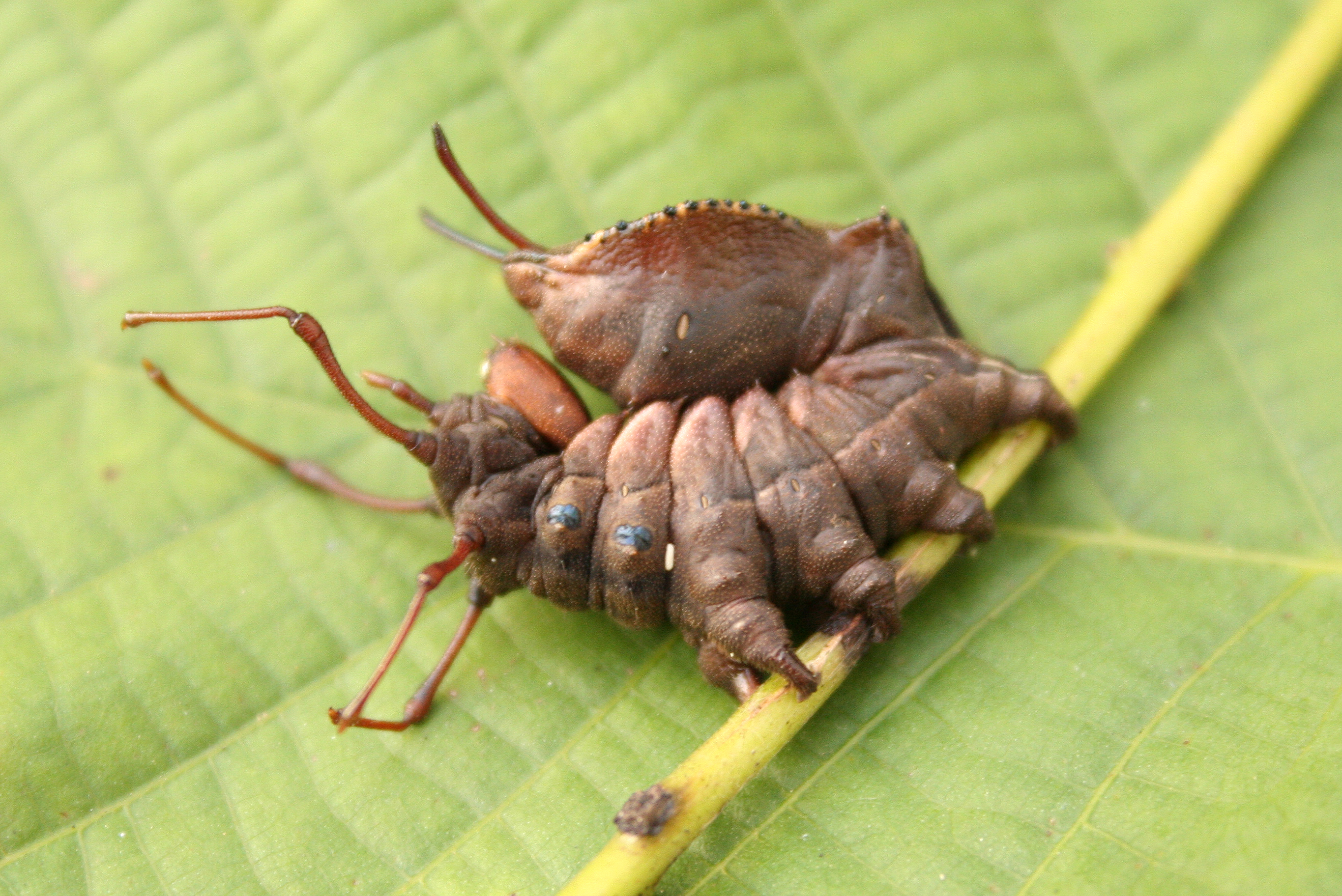 Please report references to kulacgmx.at.